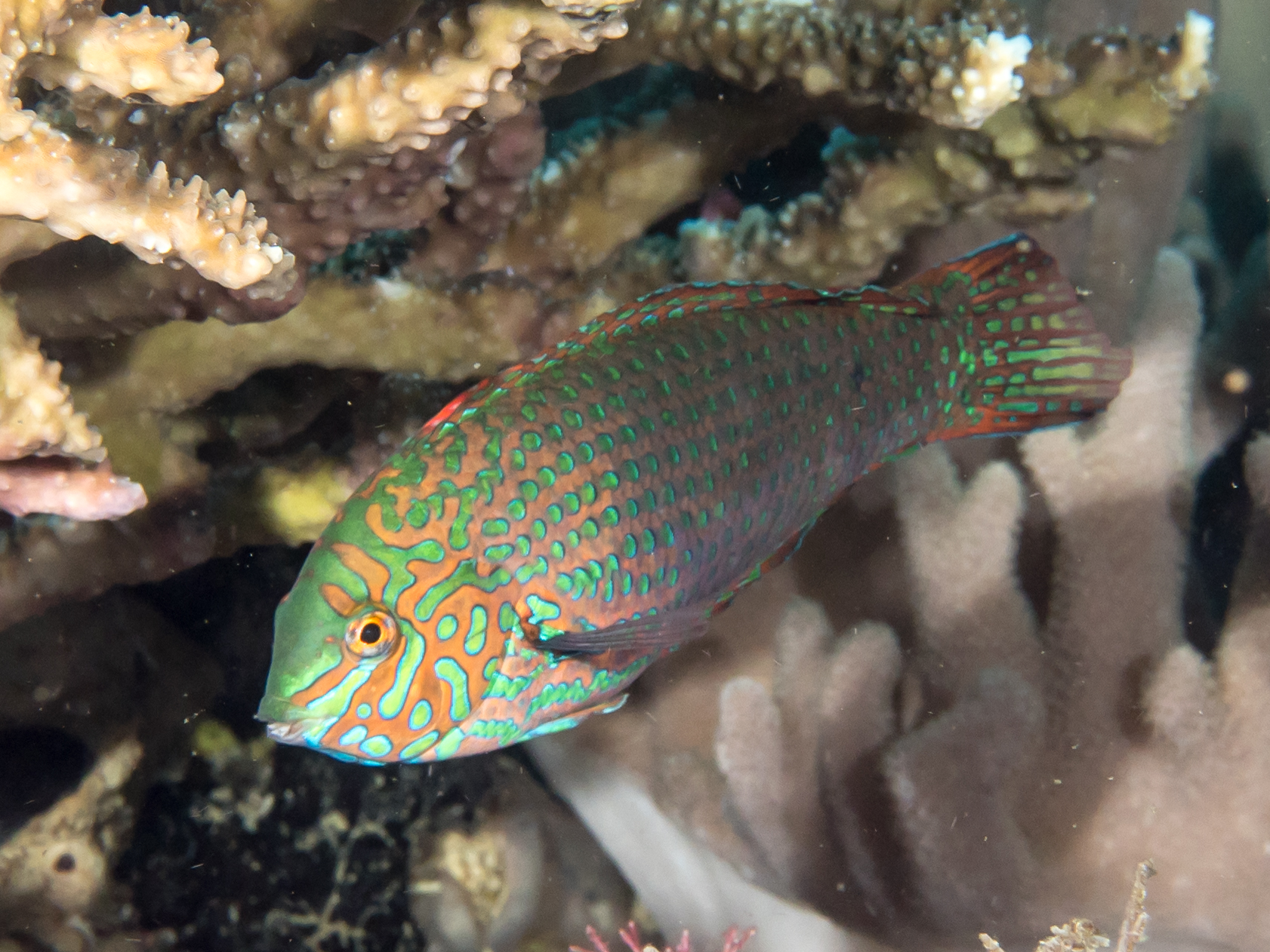 Morotai, Indonesia - Leopard wrasse male (Macropharyngodon meleagris)